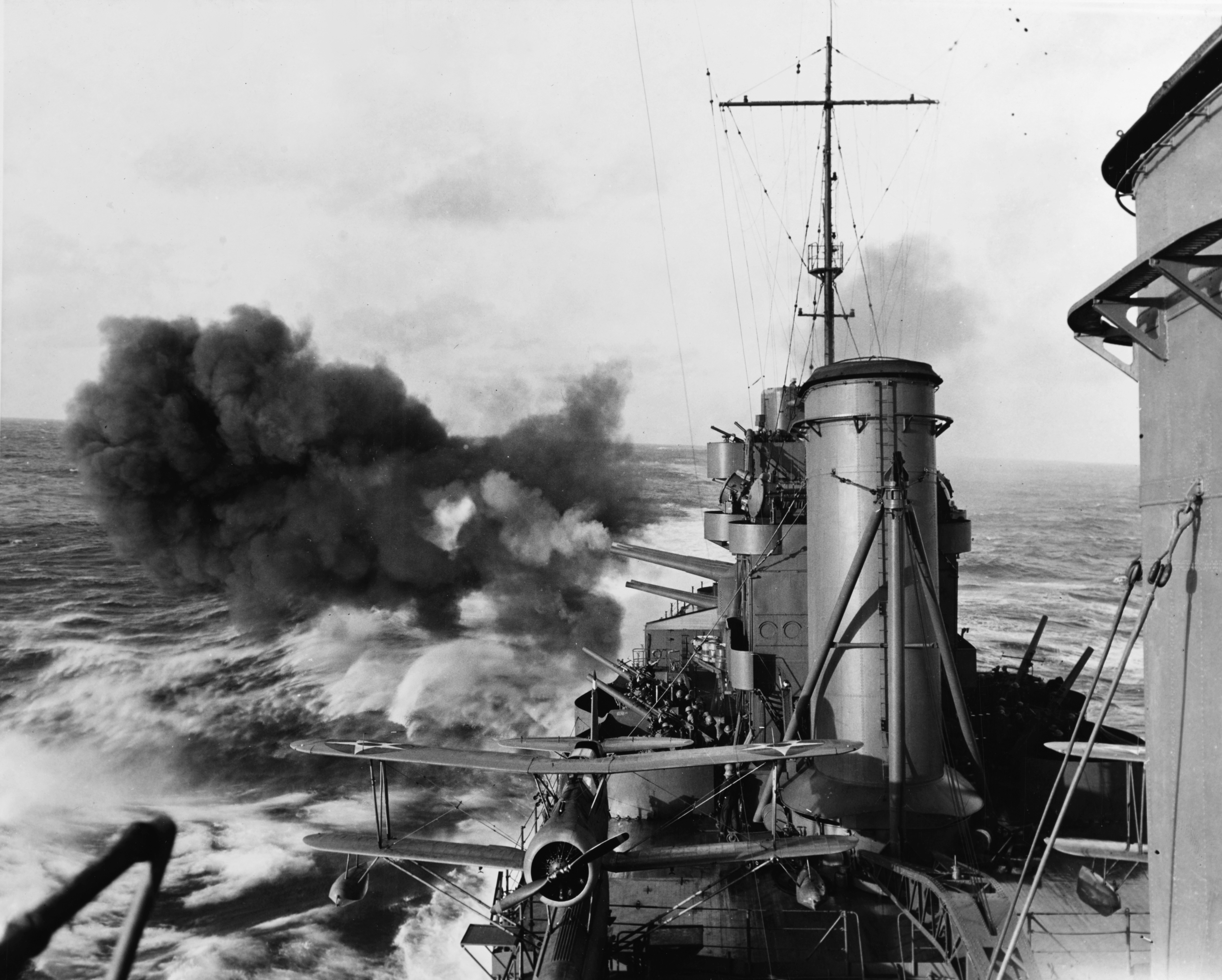 The U.S. Navy heavy cruiser USS Salt Lake City (CA-25) fires her after 8"/55 guns while bombarding a Japanese-held island in February 1942. This view has long been identified has a scene from the 24 February bombardment of Wake. However, it may have been taken on 1 February, during the bombardment of Wotje, in the Marshall Islands. Note the Curtiss SOC Seagull floatplane in the foreground, with the cruiser's after stack and aircraft crane immediately to the right.